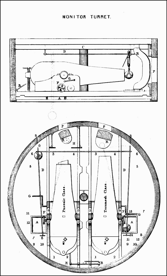 Modified Line engraving of hypothetical monitor turret showing mounting of two different XV-inch Dahlgren models